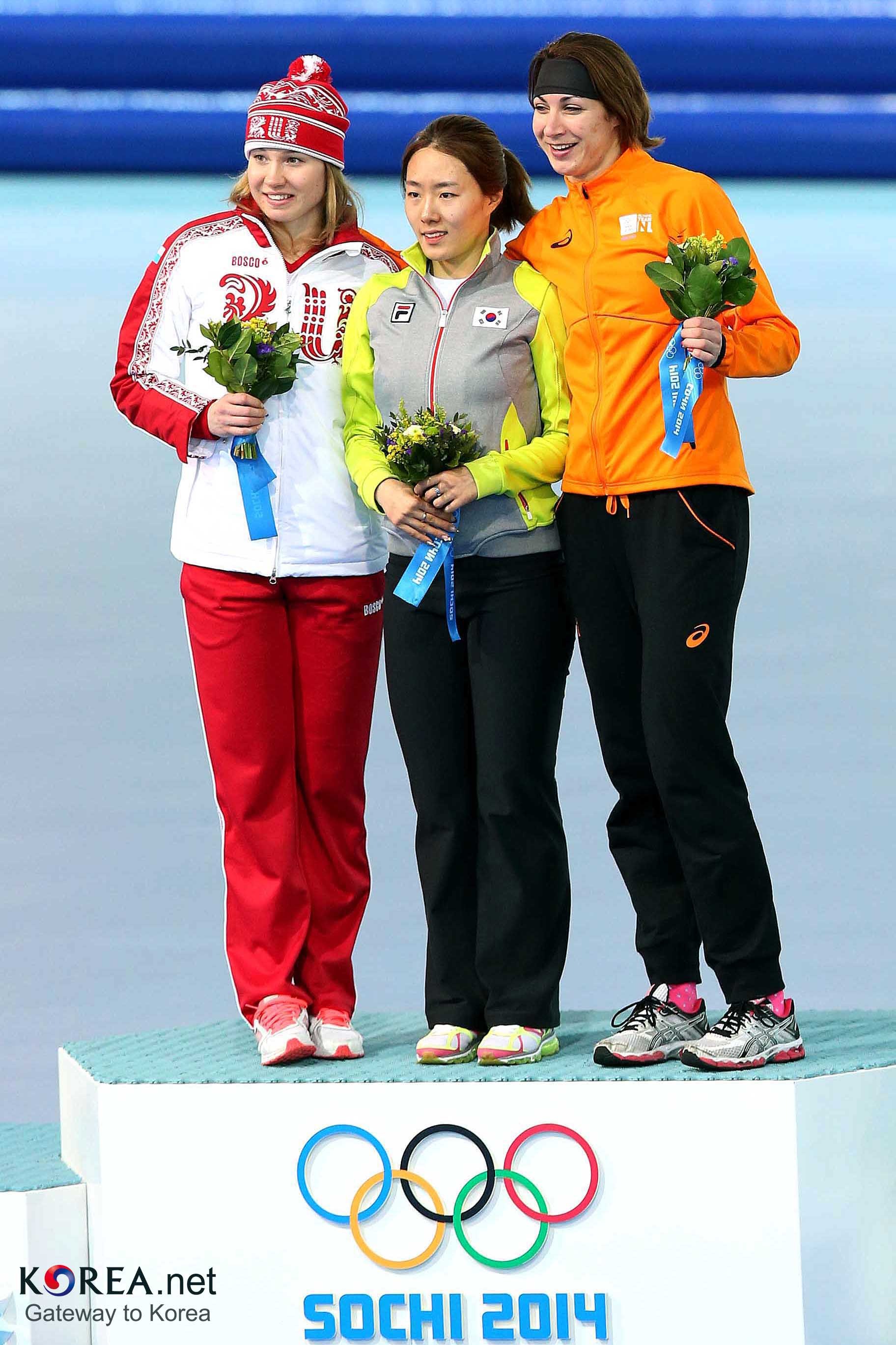 Lee Sang-hwa won Korea’s first gold medal in Sochi February 12, 2014 Adler Arena, Sochi, Russia Photo: The Korean Olympic Committee Related Articles -English- Lee wins gold at 2nd consecutive Olympics, sets new record Speed skater Lee breaks own world record 3 times 이상화 2014 소치 동계올림픽 여자 스피드 스케이팅 500m 올림픽 신기록으로 금메달 획득 2014-02-012 러시아, 소치. 아들레르 아레나 사진: 대한체육회